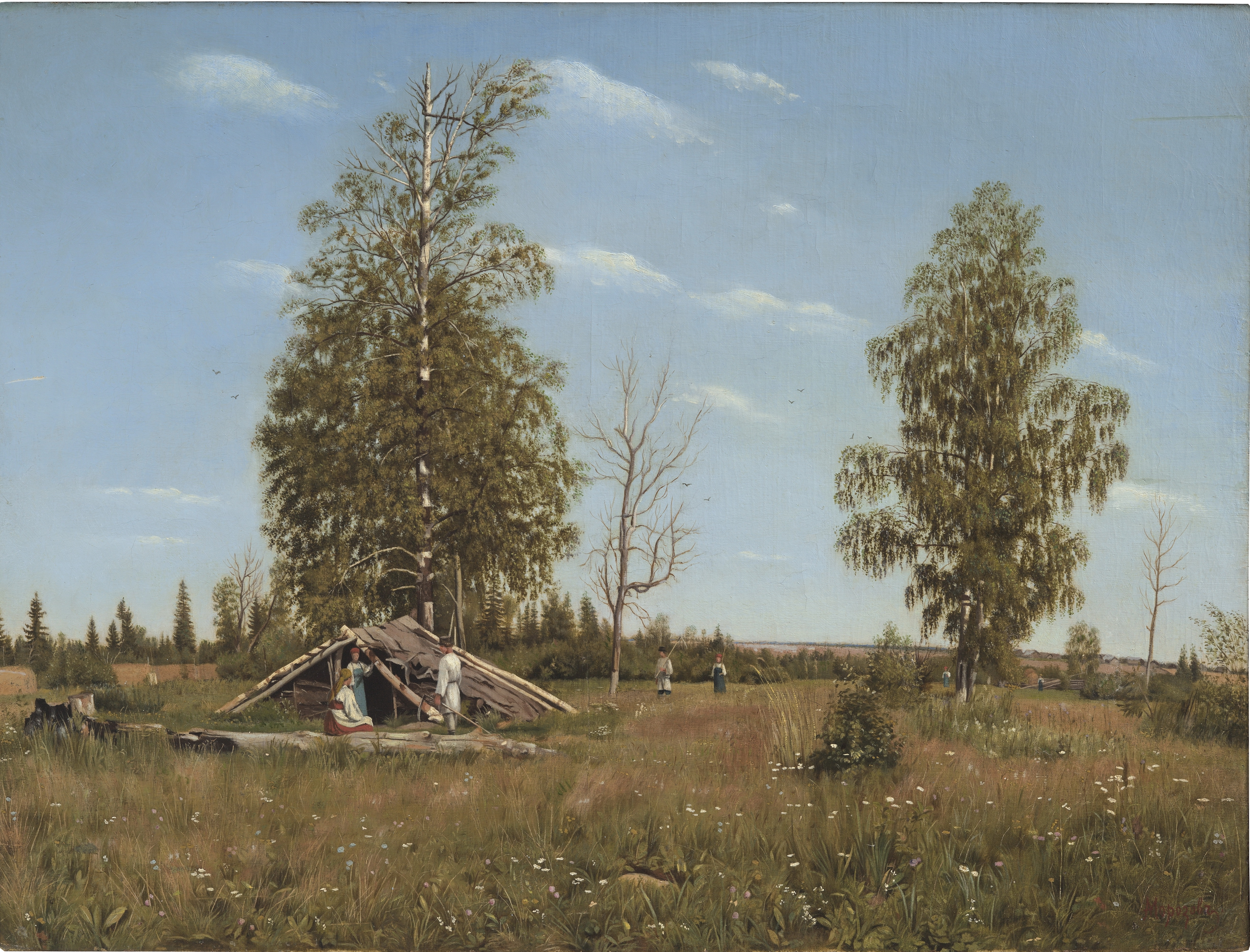 Rest At Haymaking